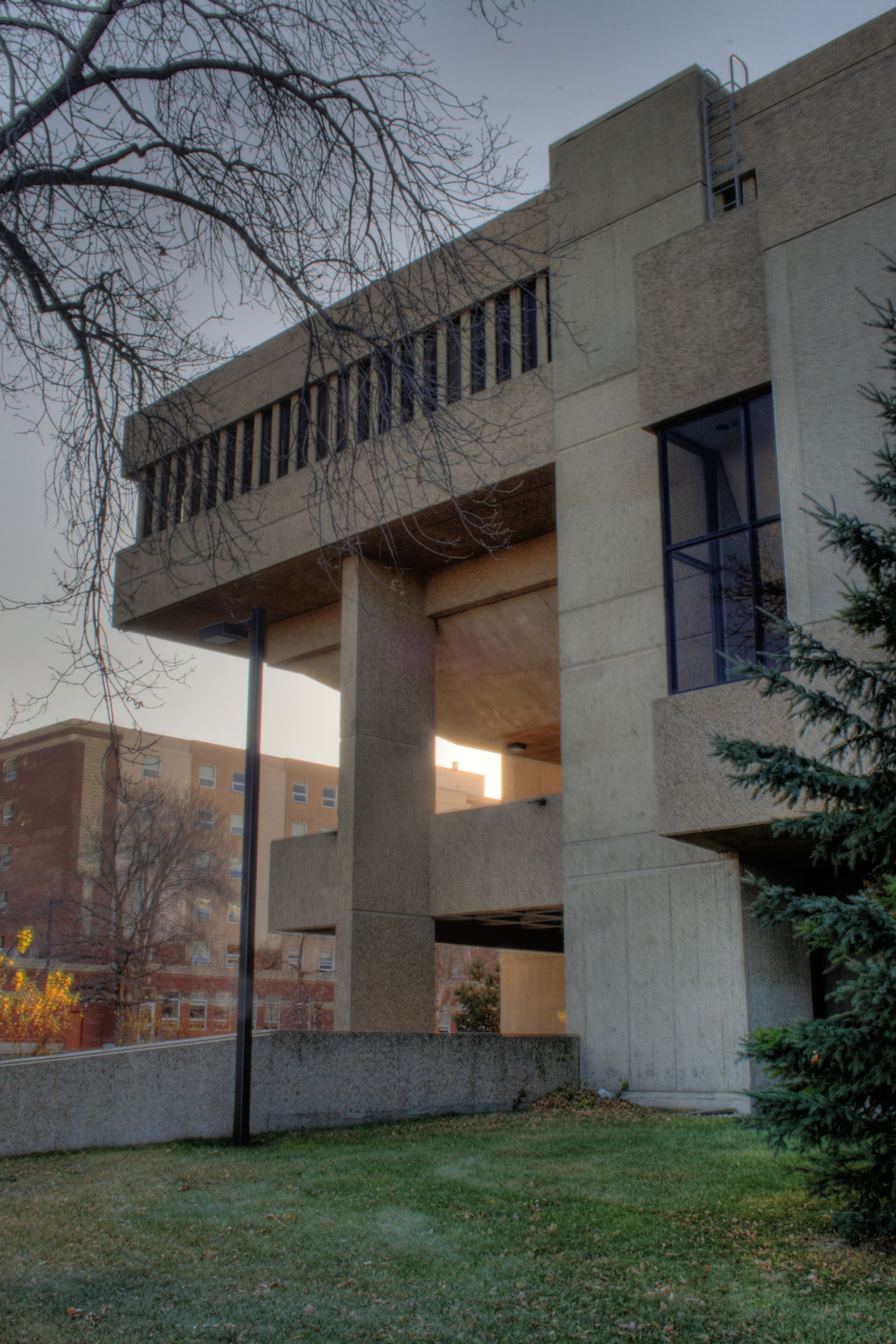 The Law Centre on the north campus of the University of Alberta, Edmonton, Alberta, Canada.